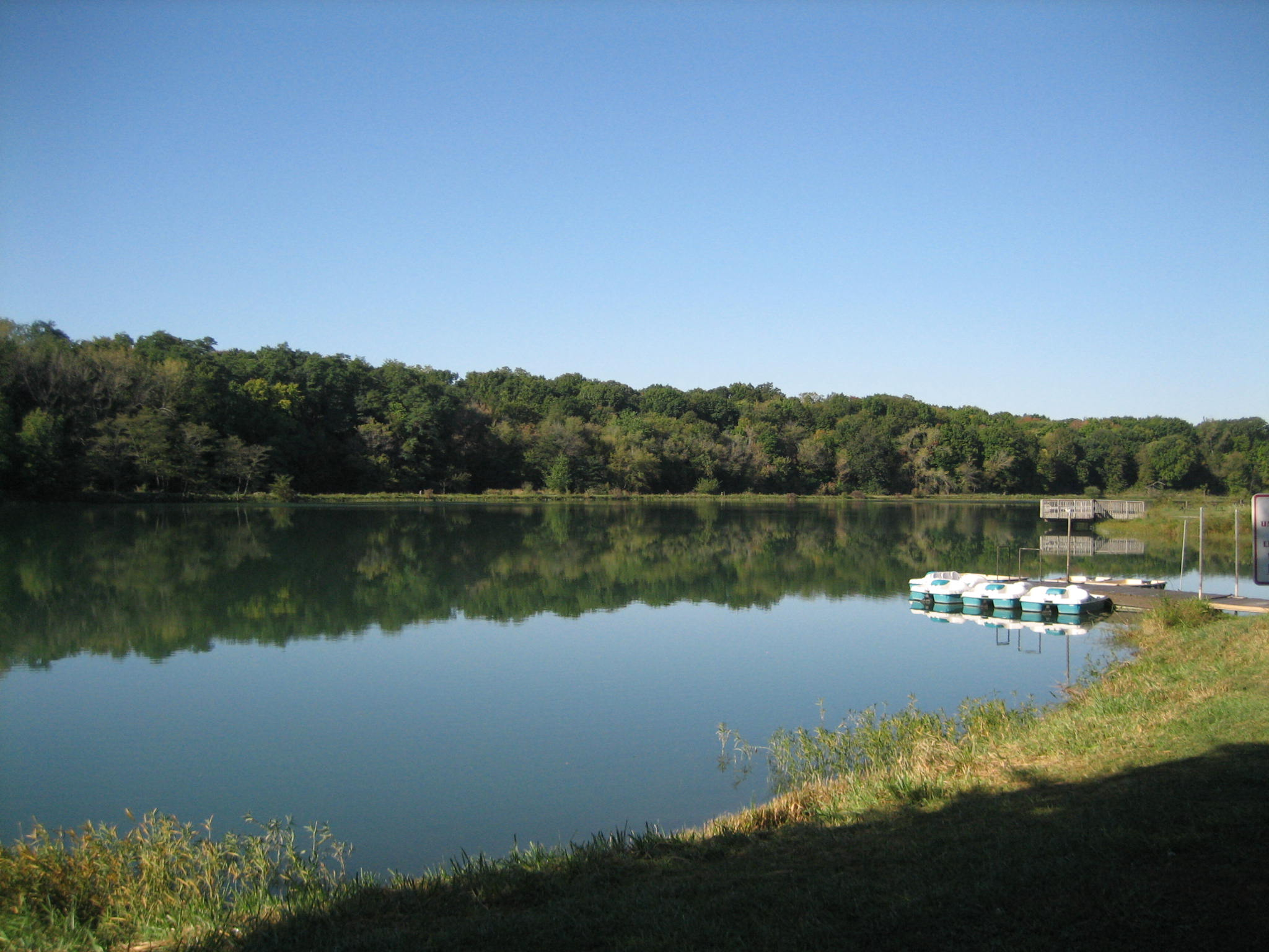 Silver Springs State Fish and Wildlife Area, Kendall County, Illinois, USA. Near the city of Yorkville. Loon Lake